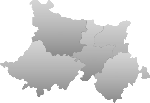 Map of Yunfu in Guangdong province.